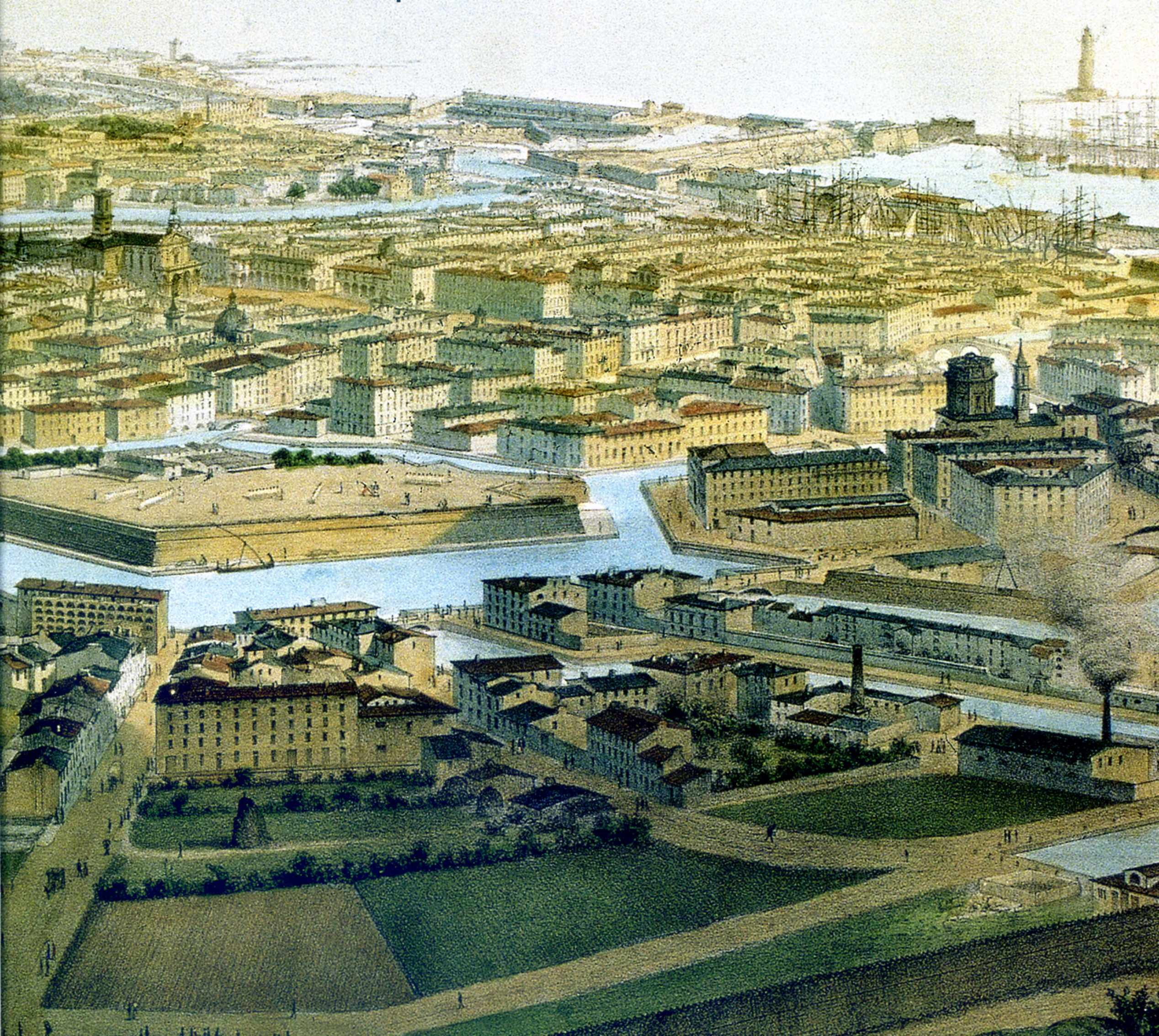 Italy, Livorno. Bird's-eye view of Livorno in mid 19th century. Fortezza Nuova is at the centre of the image, a little bit upward is the Cathedral and at the right corner the lighthouse.